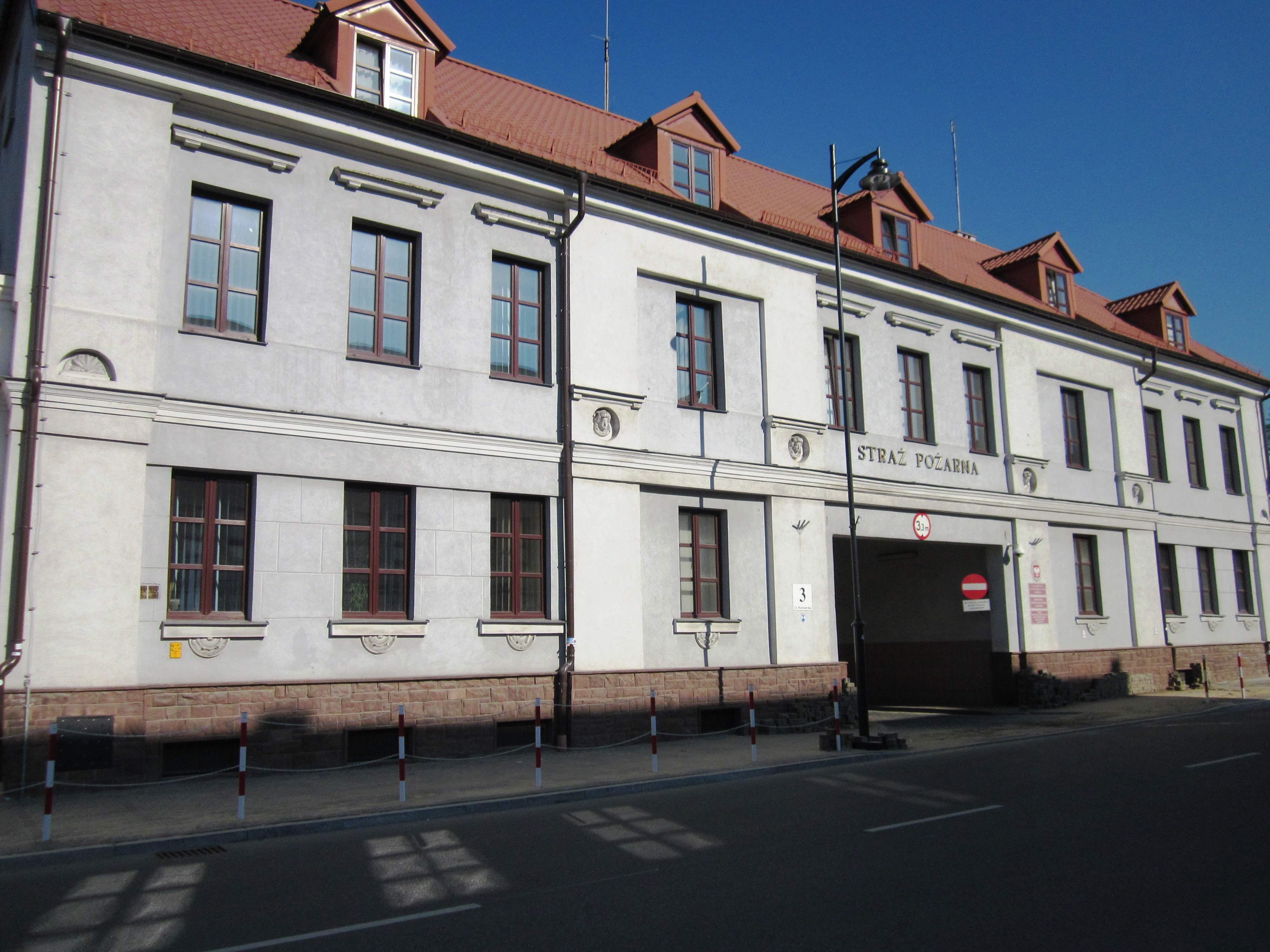 Provincial Headquarters and Municipal of the State Fire Service in Białystok, 3 Warszawska street